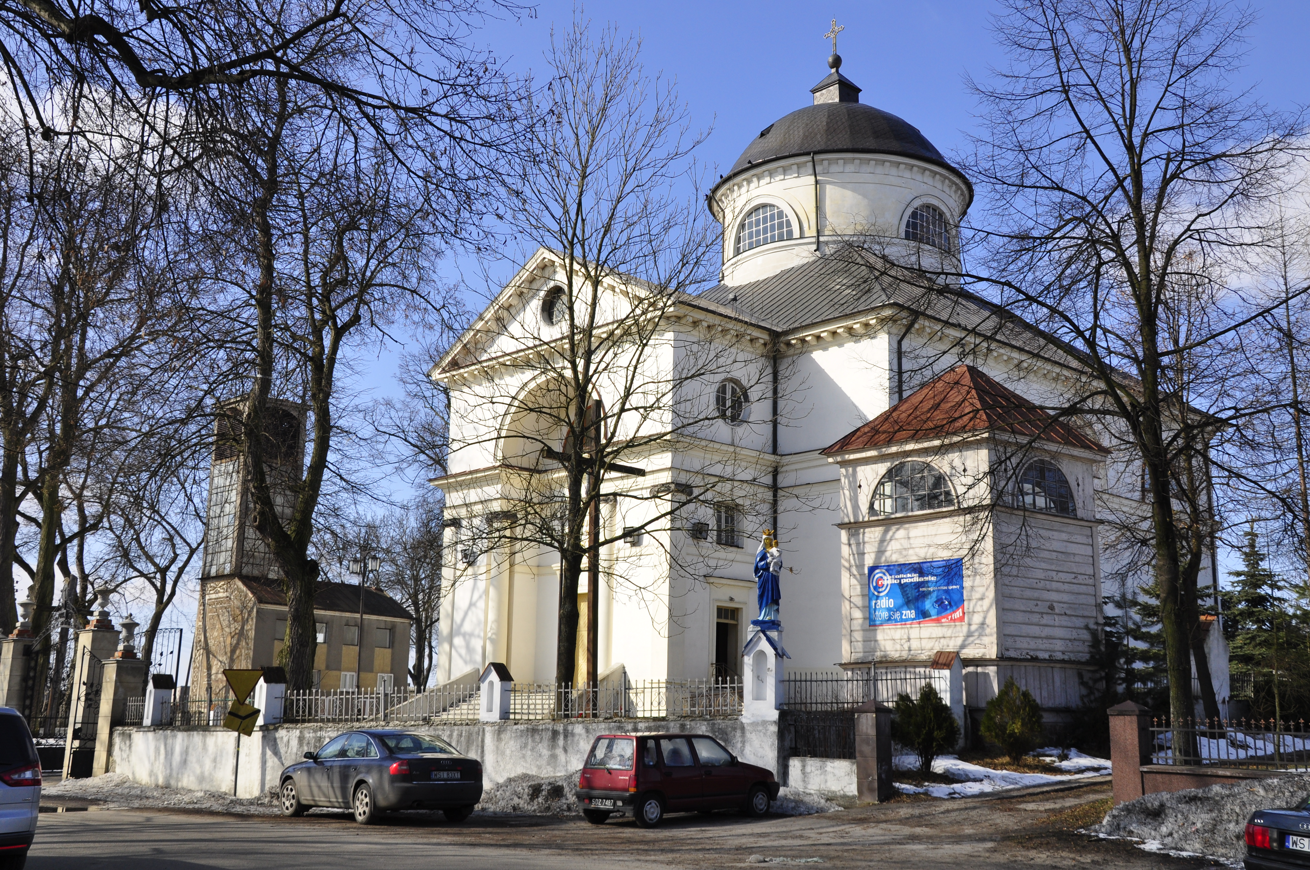 Mokobody church, Poland